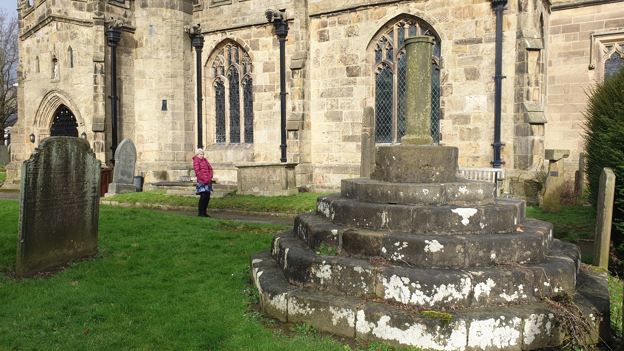 Standing cross in St Peter's churchyard in Hope, Derbyshire